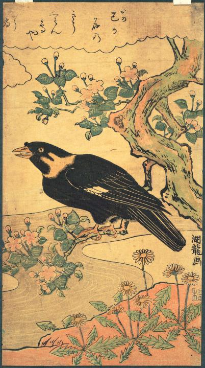 Myna bird perched on the branch of a flowering tree. Measurements: 25.8 × 14.3 cm (sheet) Technique: Nishiki-e (color woodblock print) Inscription (signature): Koryū ga